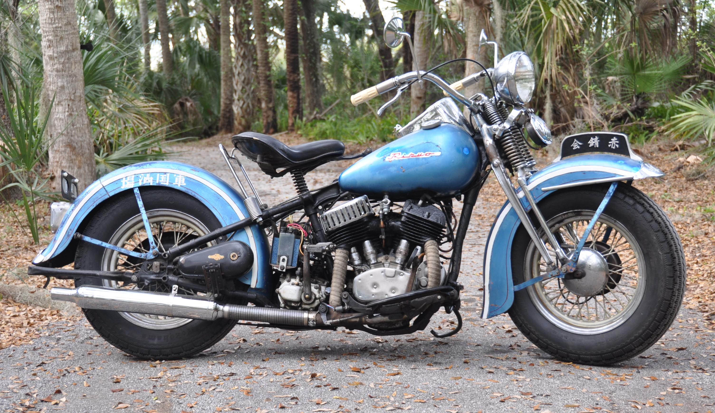 Image after removal of green rattle-can paint.